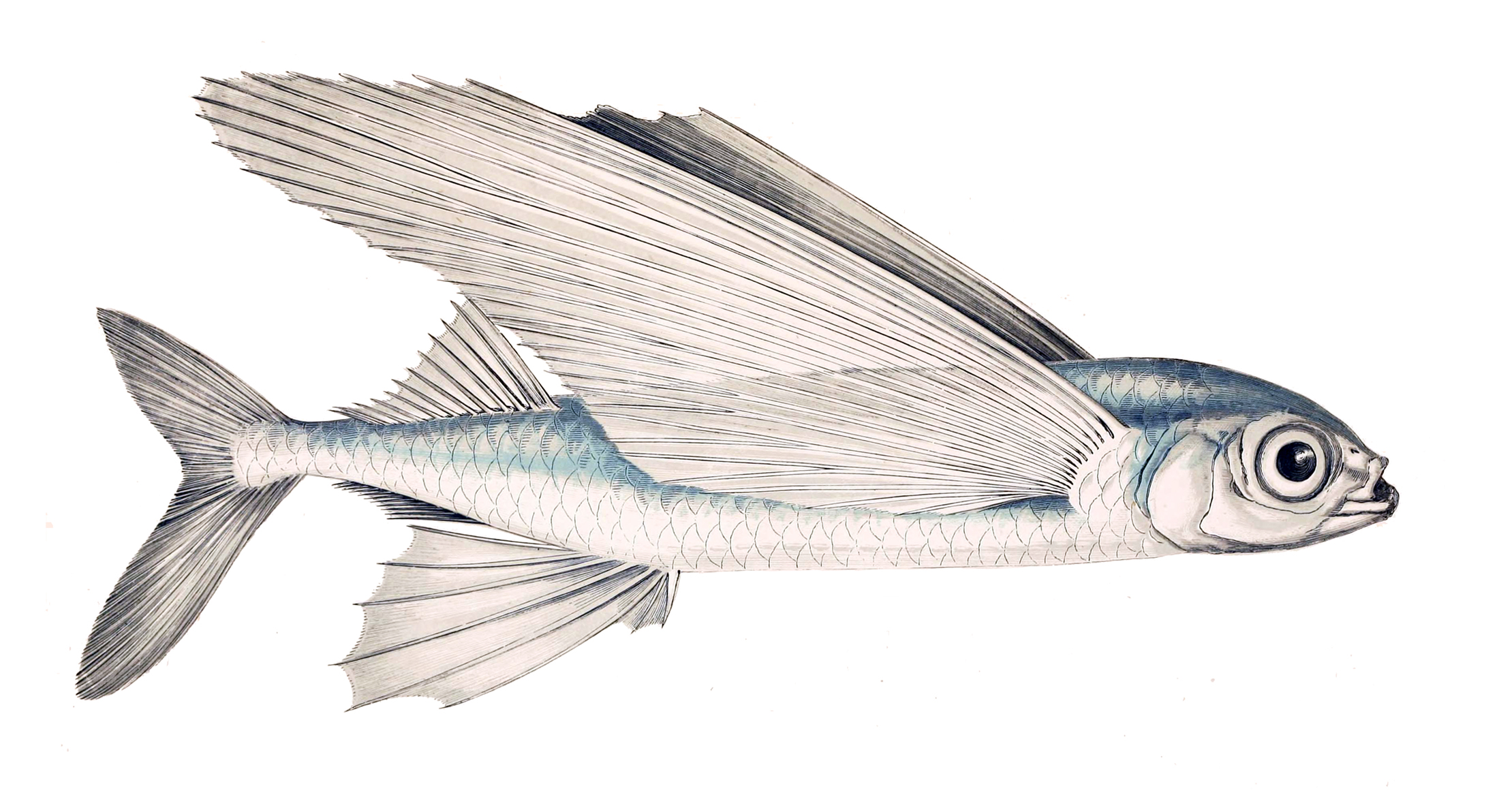 A common atlantic flying fish (Exocoetus volitans).